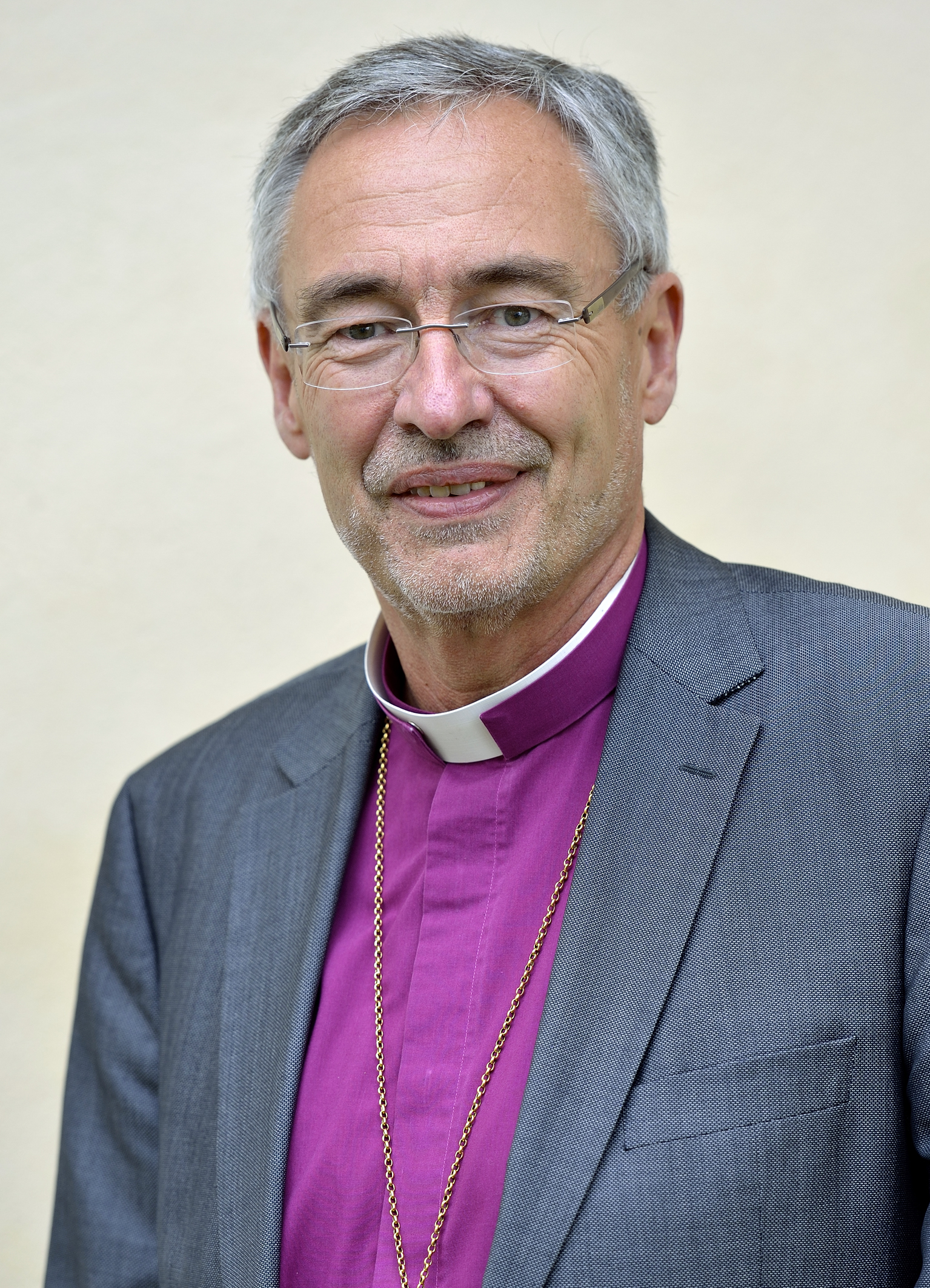 Esbjörn Hagberg, Bishop of the Diocese of Karlstad, Sweden.